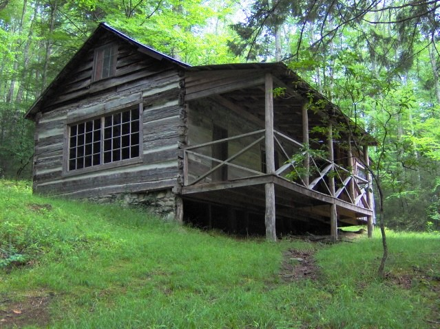 The Mayna Treanor Avent Cabin in Elkmont, Great Smoky Mountains National Park, in East Tennessee. This cabin, which Nashville artist Mayna Avent used as a studio in the 1920's and 1930's, was built around 1850 by the Ownby family. It is located just off the Jakes Creek Trail, a mile or so above Elkmont. The cabin is listed on the National Register of Historic Places.